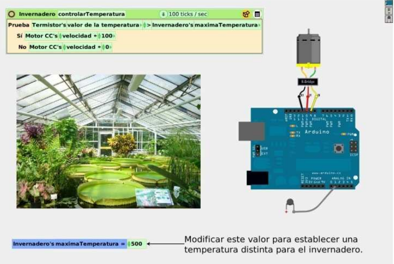 This shows a greenhouse implementation with Physical Etoys.